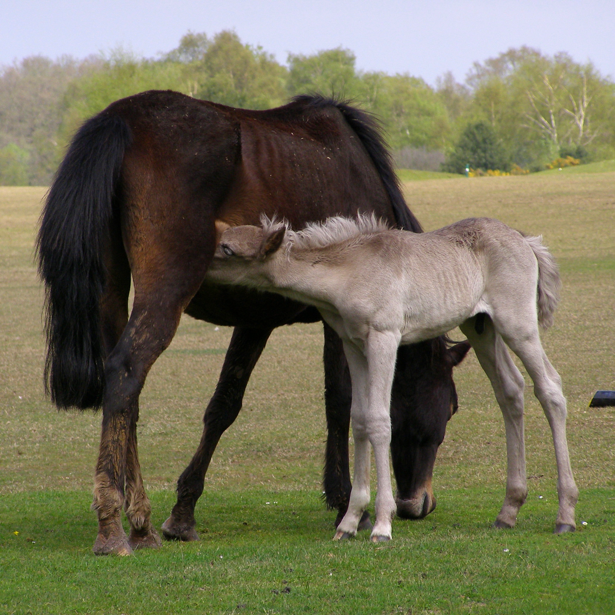 New Forest Pony with Foal